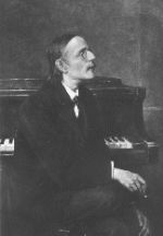 (near the bottom)